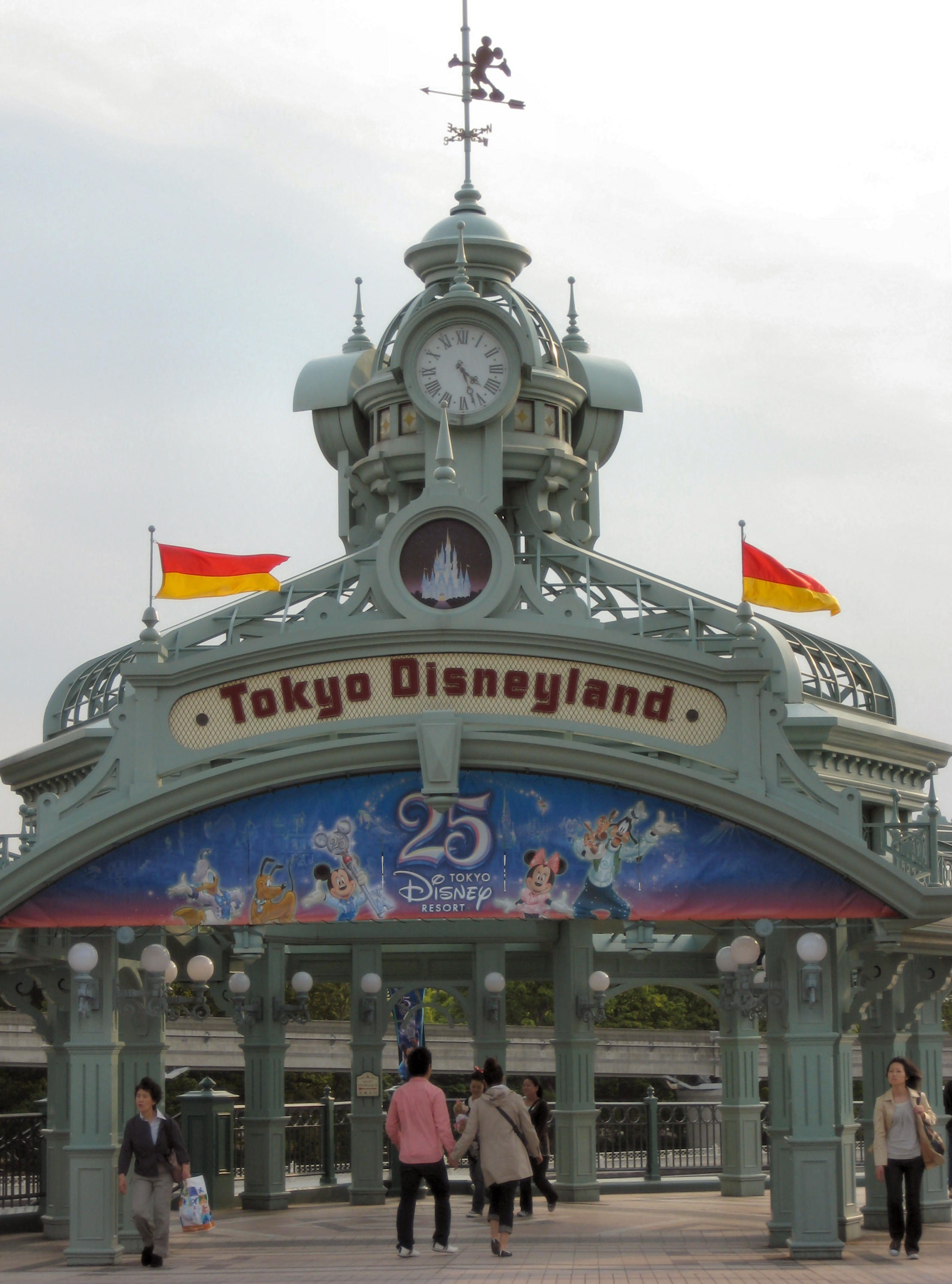 Tokyo Disneyland, Urayasu